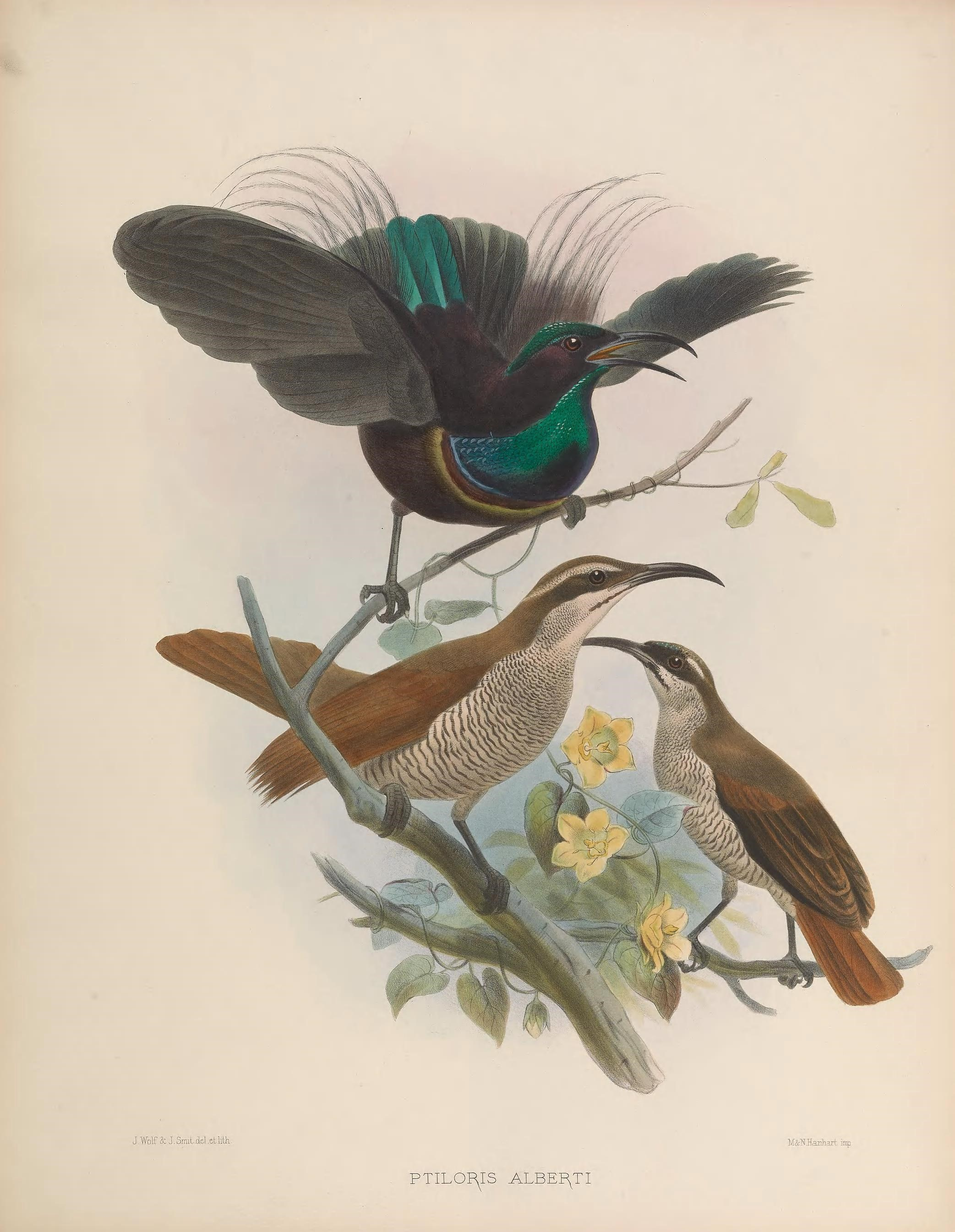 Drawing of 1873